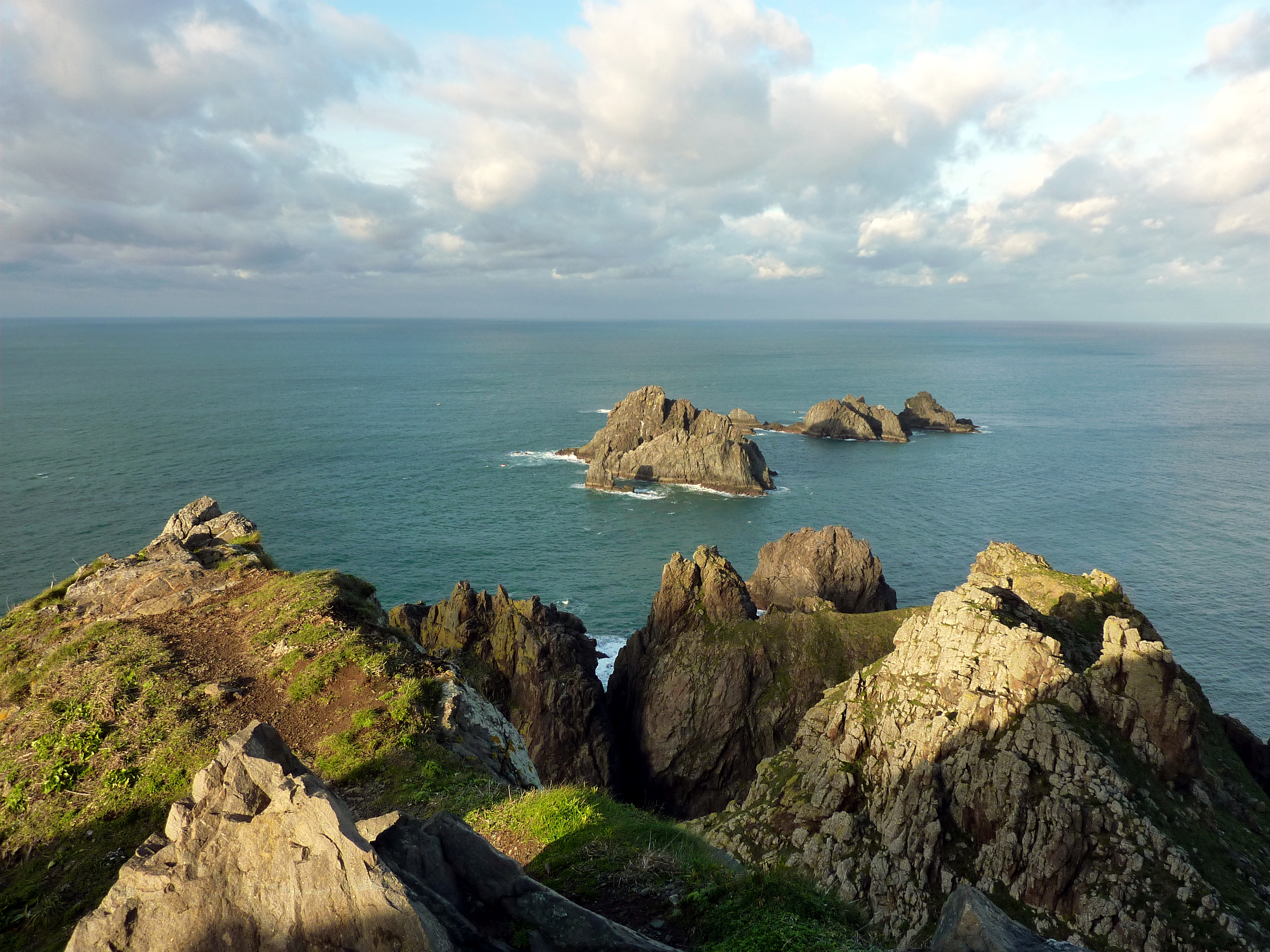 Cape Ortegal, Galicia, Spain